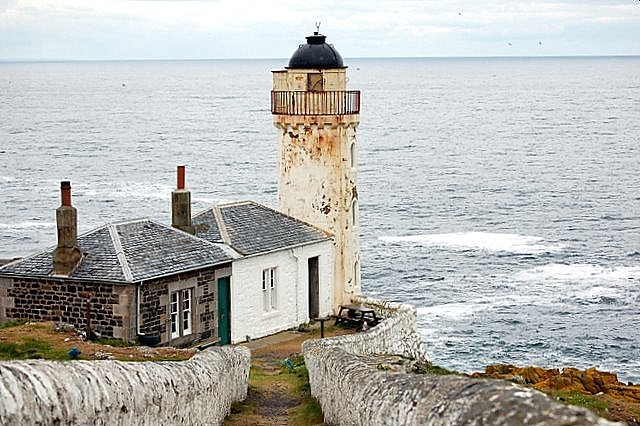 Bird Observatory